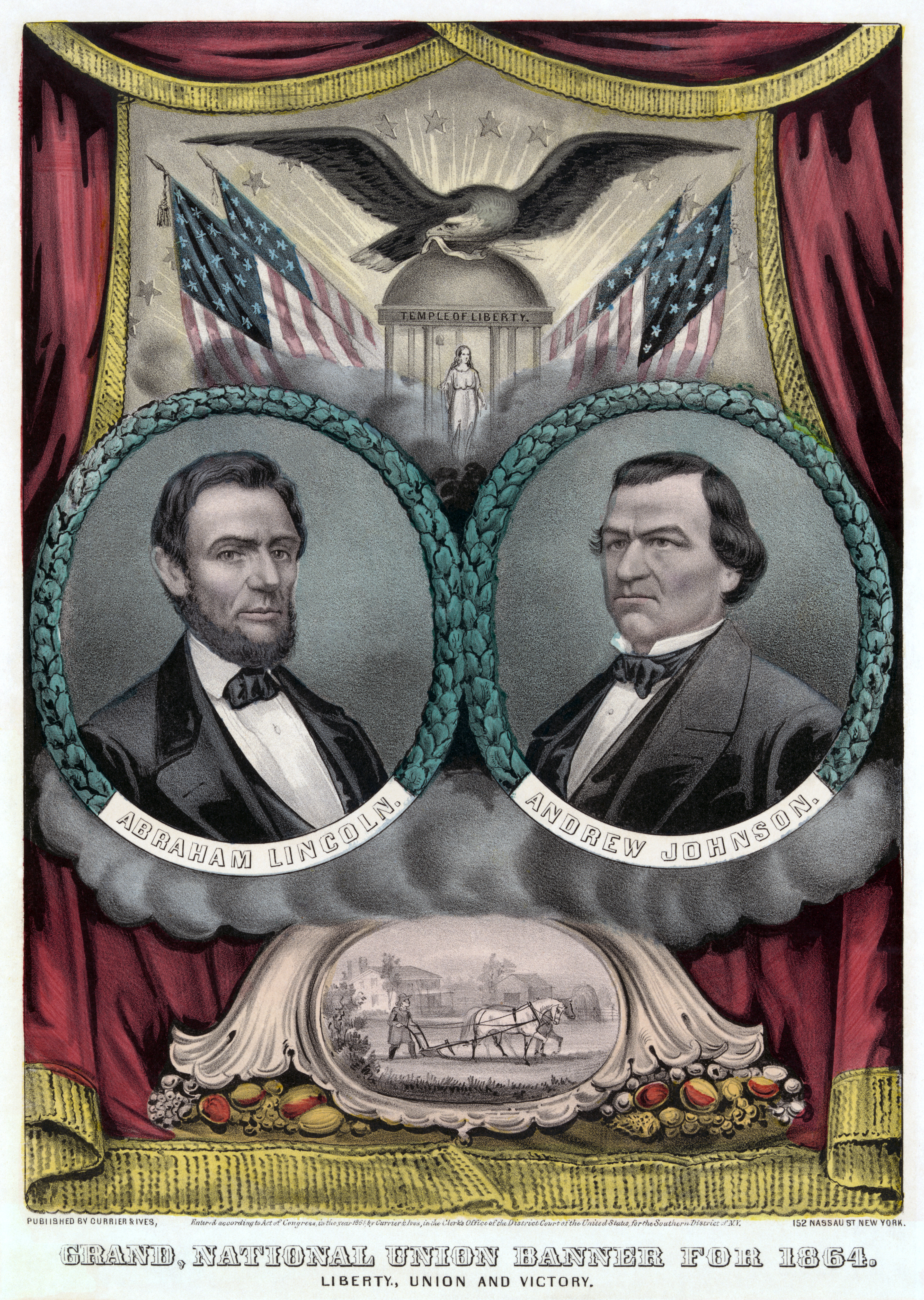 United States Republican presidential ticket, 1864. Print shows a campaign banner for 1864 Republican presidential candidate Abraham Lincoln and running mate Andrew Johnson. A drawn curtain reveals bust portraits of the two candidates in roundels framed in oak leaves. Above the portraits is a "Temple of Liberty," within which stands a female figure holding a staff and liberty cap. Four American flags flank the temple. Perched on the temple's dome is an eagle with spread wings holding a banderole in his mouth and arrows in his talons. Rays of light ending in stars emanate from the temple. A vignette below the portraits shows a man plowing with a team of horses in front of farm buildings. The peace and prosperity to come with Lincoln's reelection, evoked by this bucolic scene, are emphasized by cornucopias on either side spilling over with fruit. 1 print on wove paper : lithograph with watercolor ; image 32.2 x 22.4 cm.